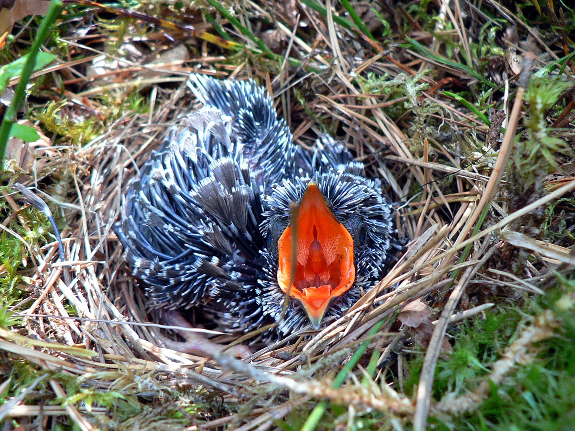 Chick of Common Cuckoo (Cuculus canorus) in nest of Tree Pipit (Anthus trivialis).